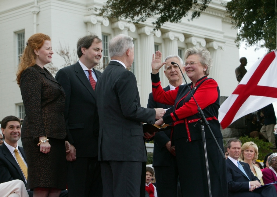 State Treasurer Kay Ivey is sworn in by Sen. Jeff Sessions on the Capitol steps in Montgomery (1/15/07)